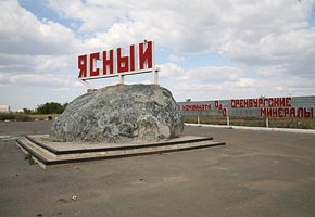 Yasny